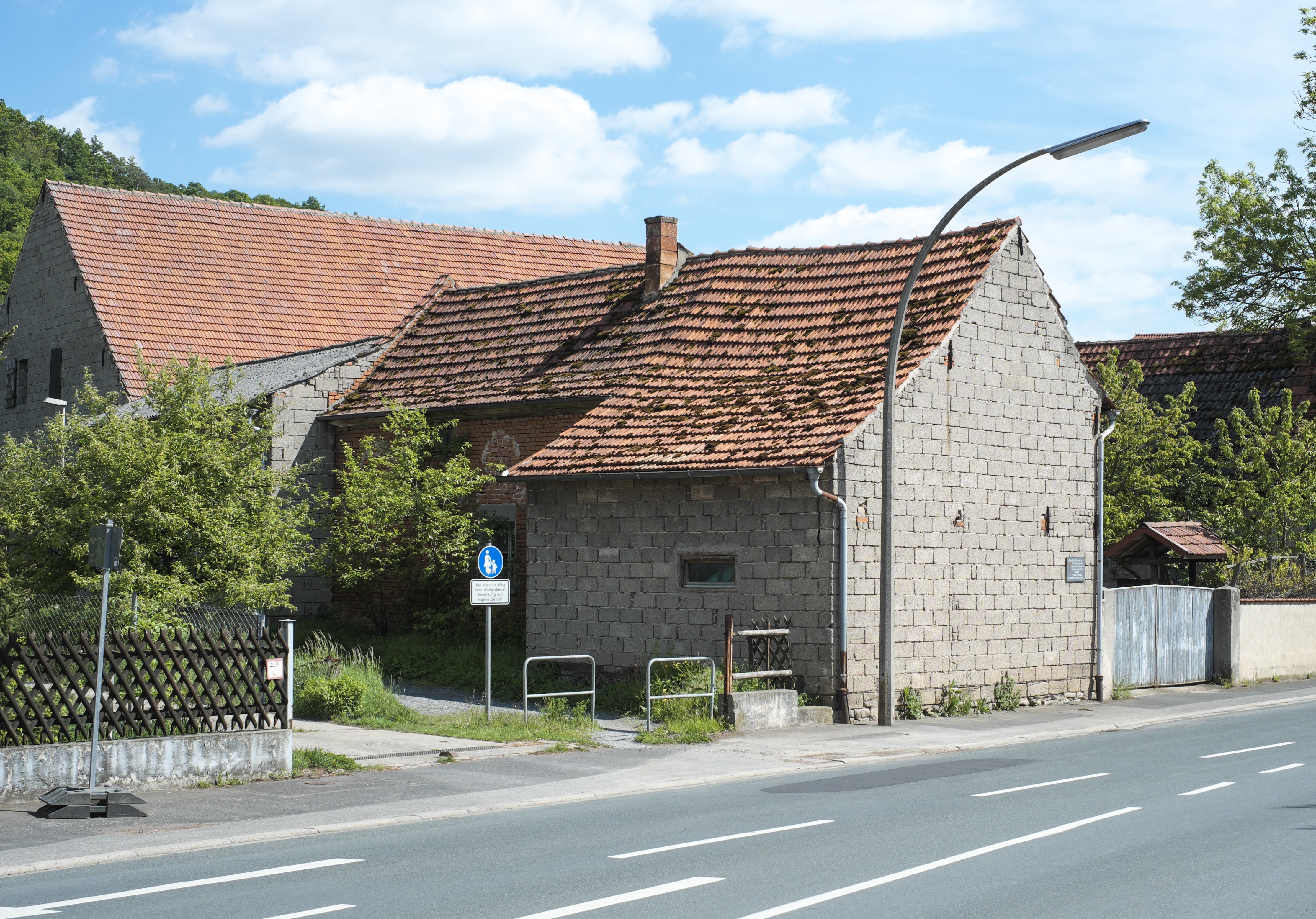 Former synagogue in Kleinbardorf, county Rhön-Grabfeld, Lower Franconia, Bavaria, Germany